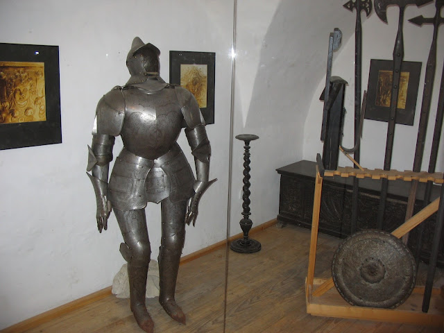 Armour, Predjama Castle, Slovenia